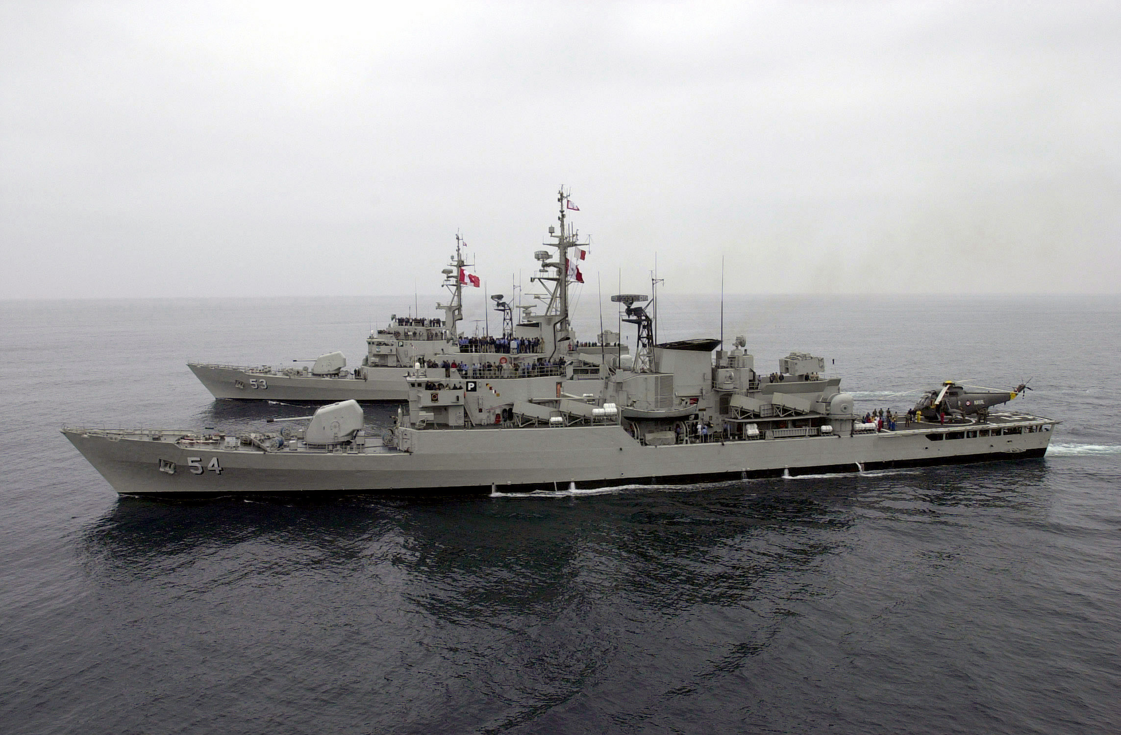 Port side view of the Peruian Carvajal (LUPO) Class (FFGHM) Frigate Buque Armada Peruana (Ship of the Peruvian Armada) BAP MONTERO (FM 53) (rear) and BAP MARIATEGUI (FM 54) underway during UNITAS XLII.